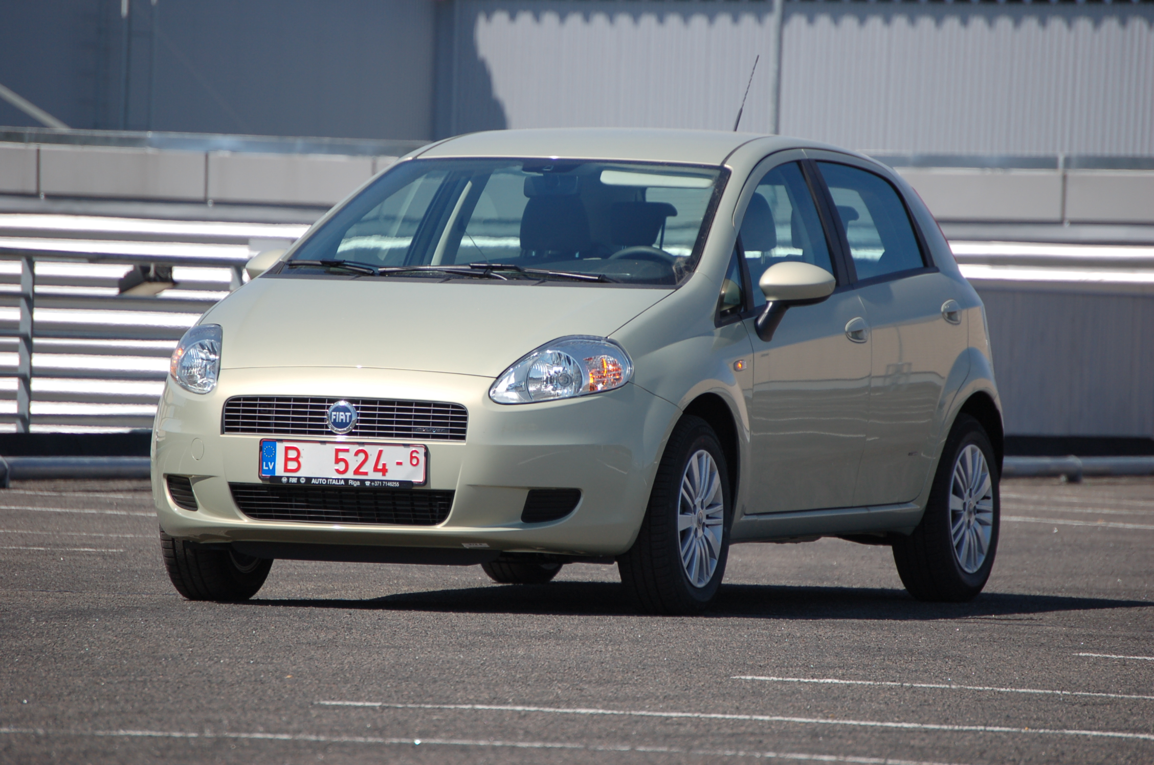 Fiat Grande Punto I